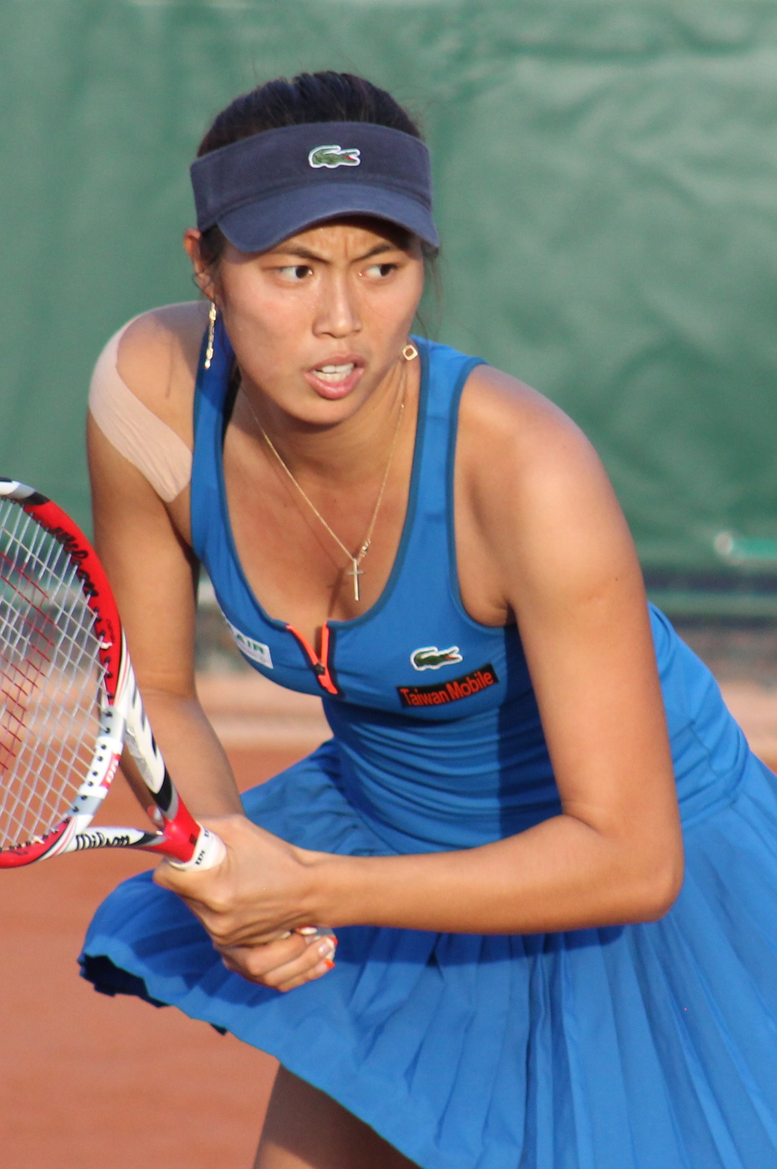 Chan H.C. RG15 (13)